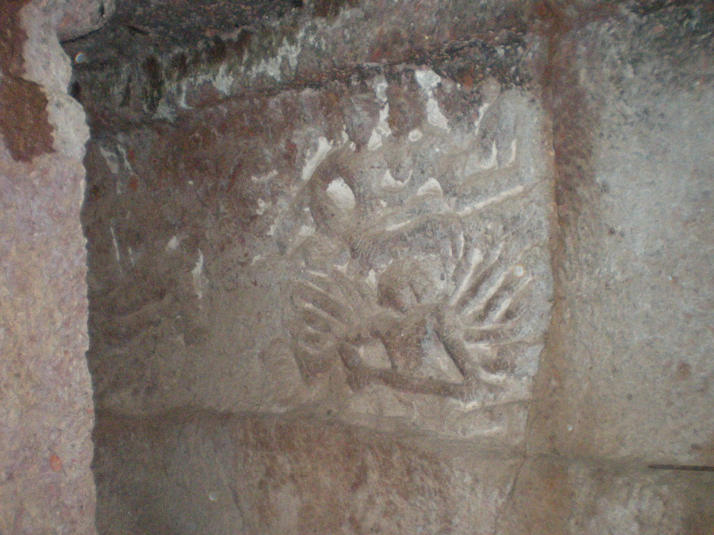 Panel in Kharosa Leni caves